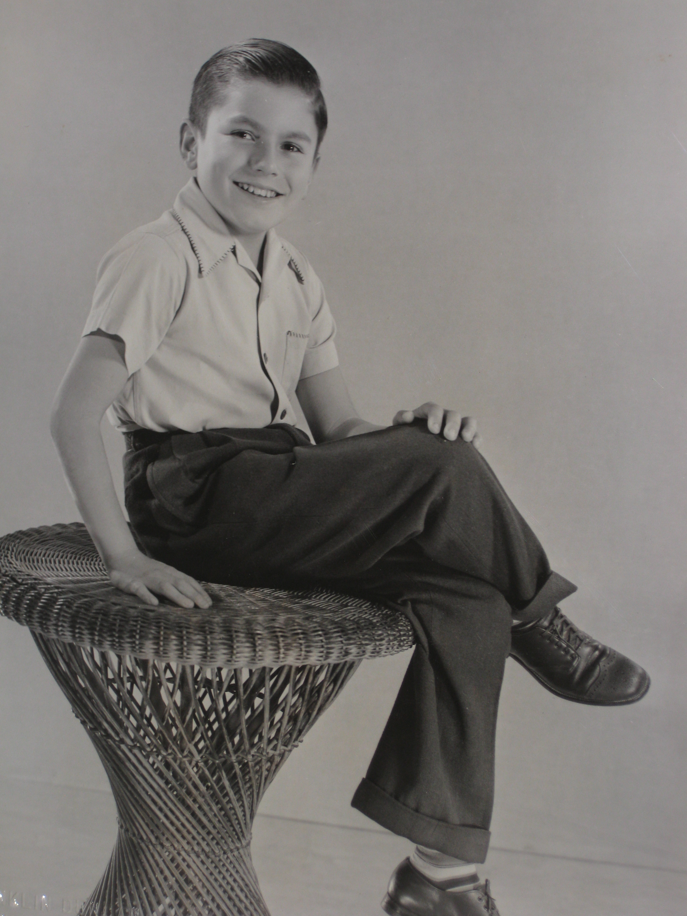 Buddy Noonan in a promotional photo taken by Omar Adams Photography. The photo was provided by his mother, Florence ("Flo") Noonan Martin (deceased), Los Angeles, CA.